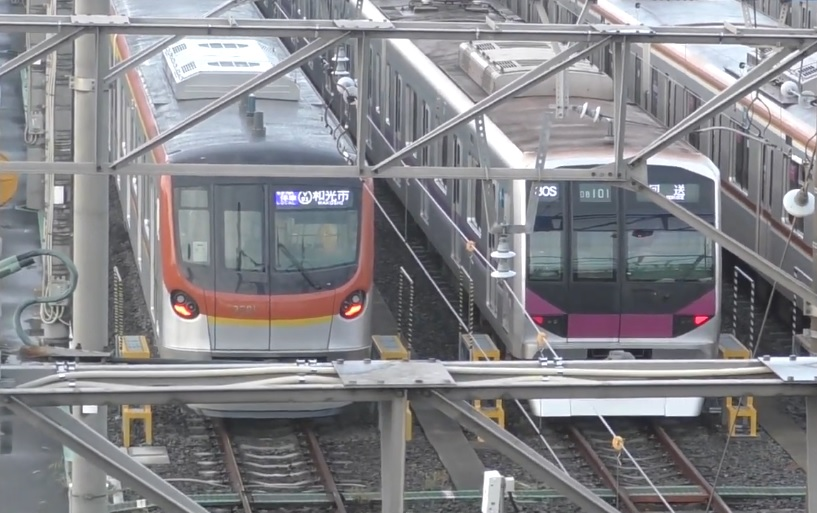 Tokyo Metro 17000 series and 08 series